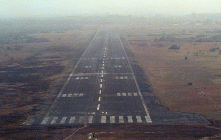 Roberts International Airport in Liberia.